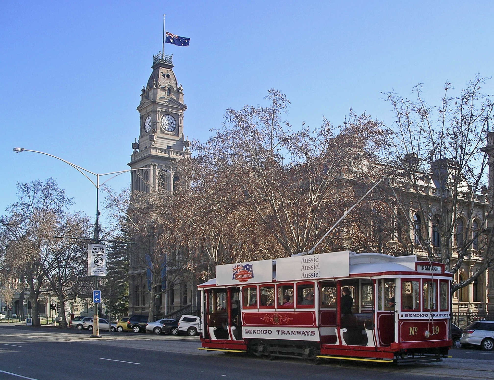 The historic post office in Bendigo, Australia, with the Bendigo Talking Tram in the foreground.